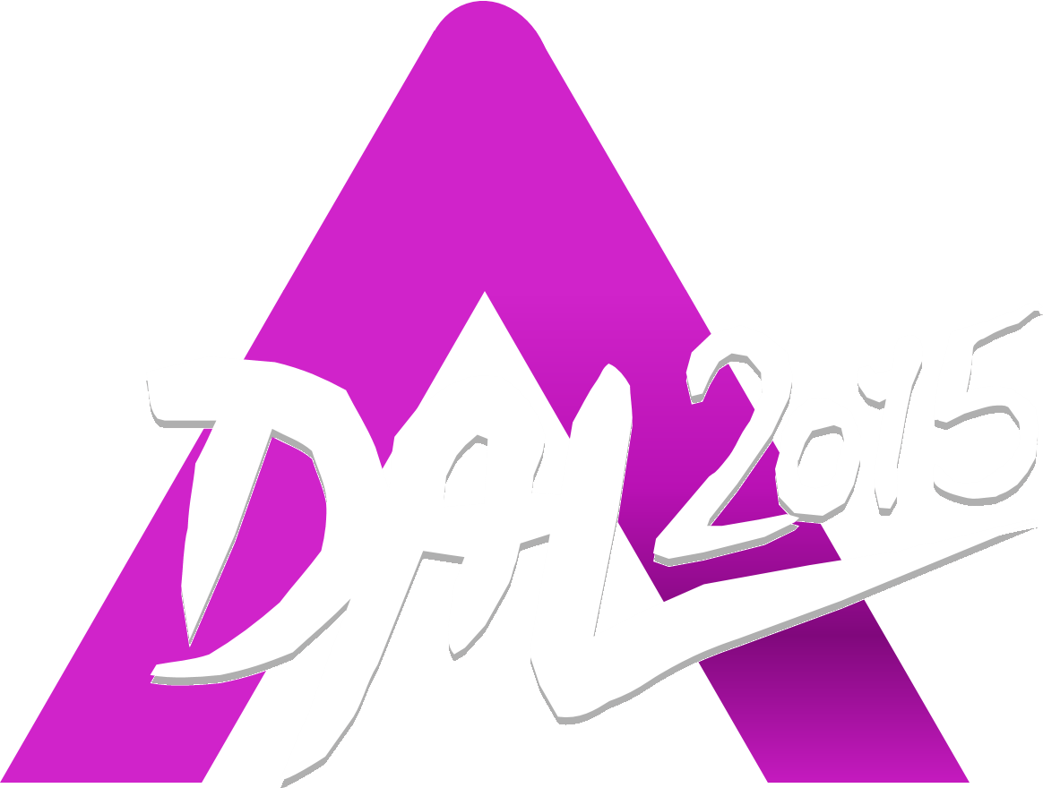 The logo of A Dal 2015, Hungarian national selection for the 2015 Eurovision Song Contest. (This is my work; based on the original identity)